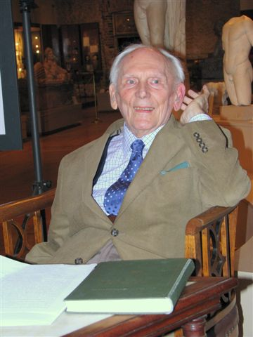 Zdzisław Żygulski jr. (August 18, 1921 in Borysław - May 14, 2015) - Polish art historian and essayist. He lived in Cracow, Poland.